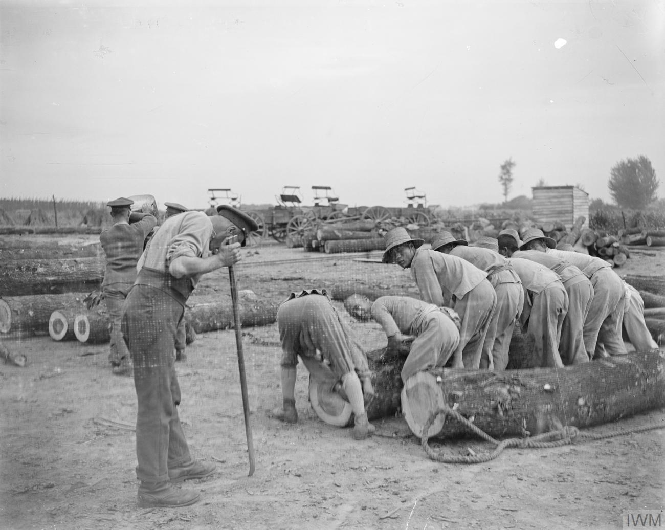 The Battle of Passchendaele, July-november 1917 Men of the Chinese Labour Corps at work in the timber yard at Caestre, 14 July 1917.